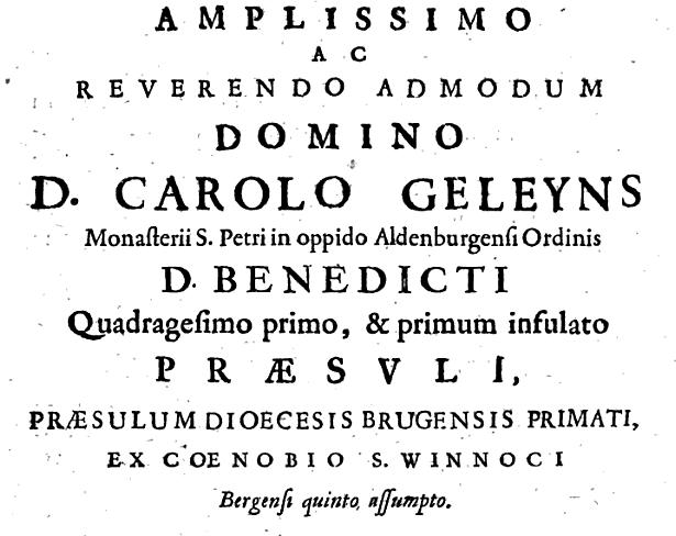 Titels and style of prelate Carolus Geleyns in 1665.